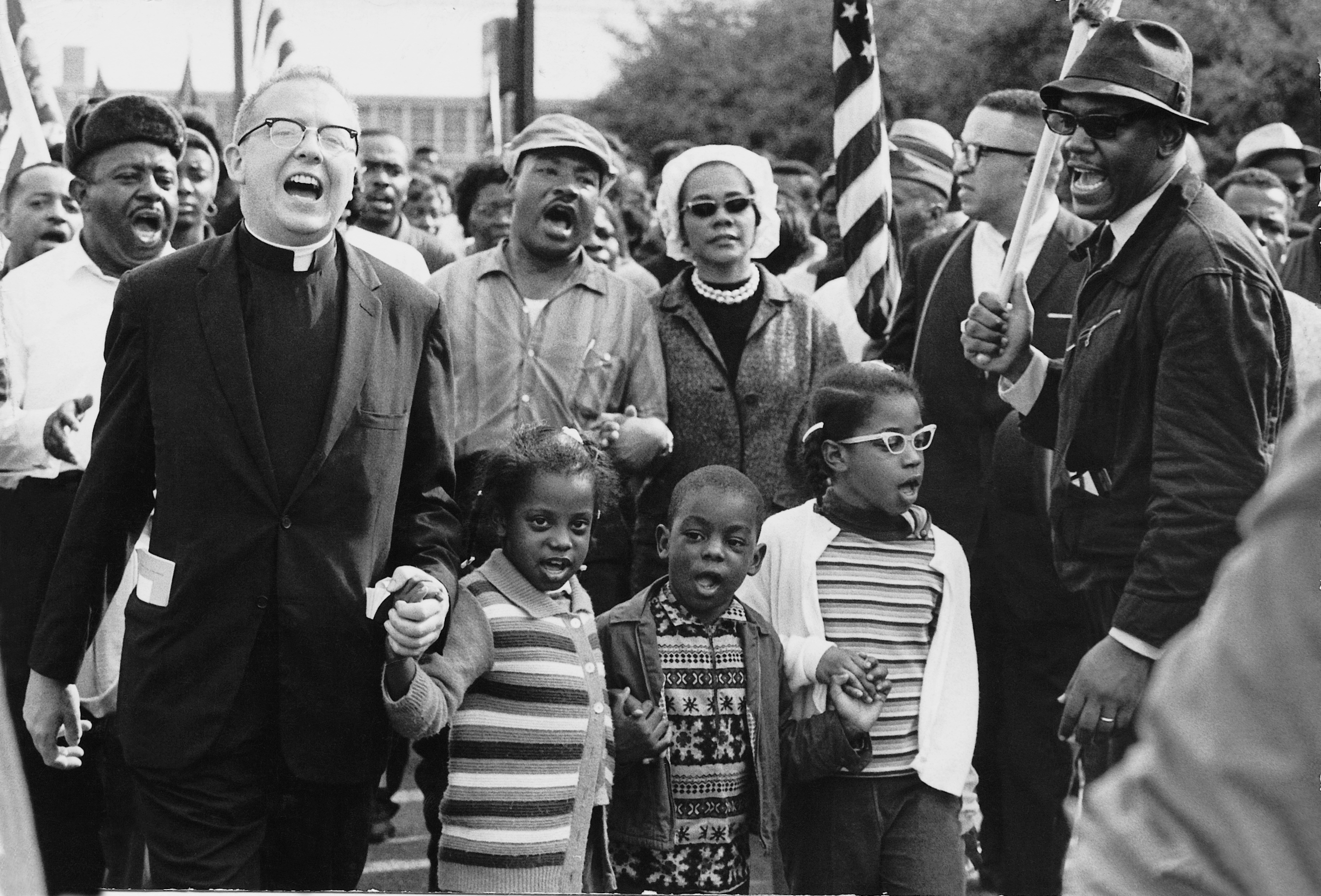 Civil Rights Movement Co-Founder Dr. Ralph David Abernathy and his wife Mrs. Juanita Abernathy follow with Dr. and Mrs. Martin Luther King as the Abernathy children march on the front line, leading the SELMA TO MONTGOMERY MARCH in 1965. The Children are Donzaleigh Abernathy in striped sweater, Ralph David Abernathy, 3rd and Juandalynn R. Abernathy in glasses. Name of the white Minister in the photo is James Reeb.